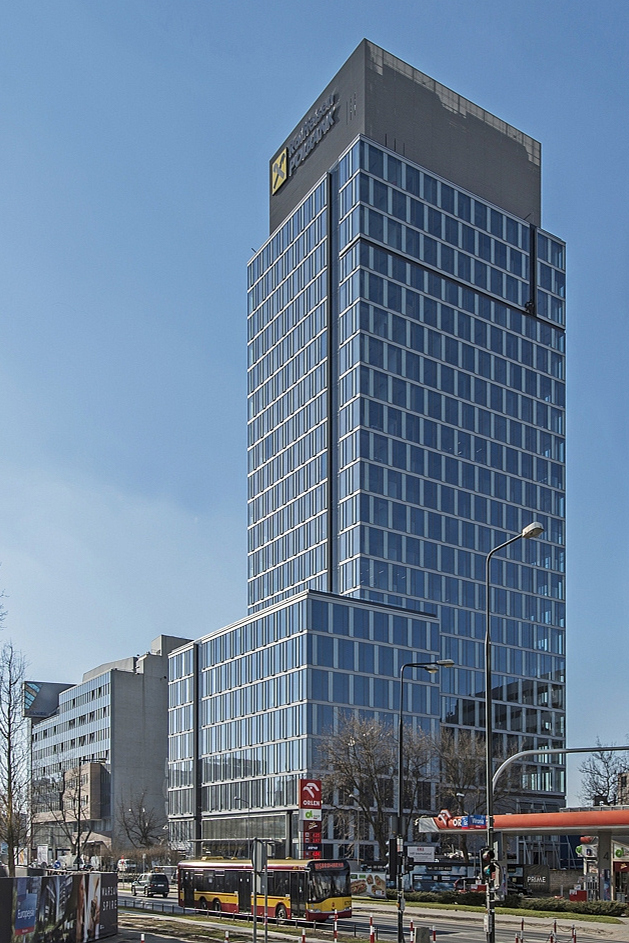 PRIME Corporate Center - 24/03/2016